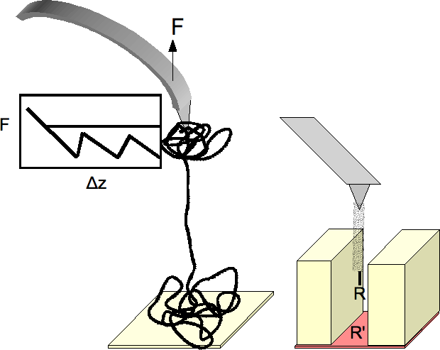 CFM fig5